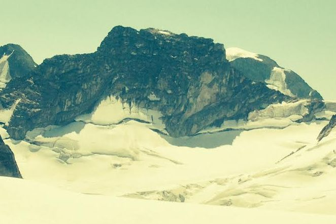 Marmolata Spire, Bugaboos, Purcell Range, British Colombia, Canada